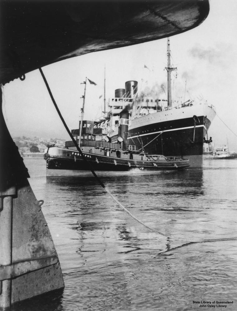 P&O's 15,241 GRT passenger liner Comorin being assisted by the tug Forceful